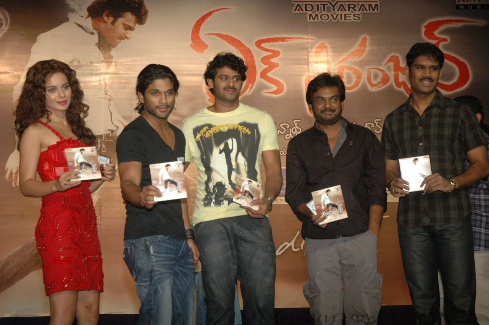 I was present in Hyderabad at the audio release of "Ek Niranjan" where Kangana Ranaut and Prabhas attended who are Indian stars on Friday, September 25th 2009. I was lucky to be in the front a few chairs from the celebrities and took pictures of the event with my high defintion camera. I wanted to get an autograph of Kangna Ranaut who is my favorite actress, but was unable too. At the event, they screened the trailer and also had some dancers on the show. The music was launched and I've bought the CD